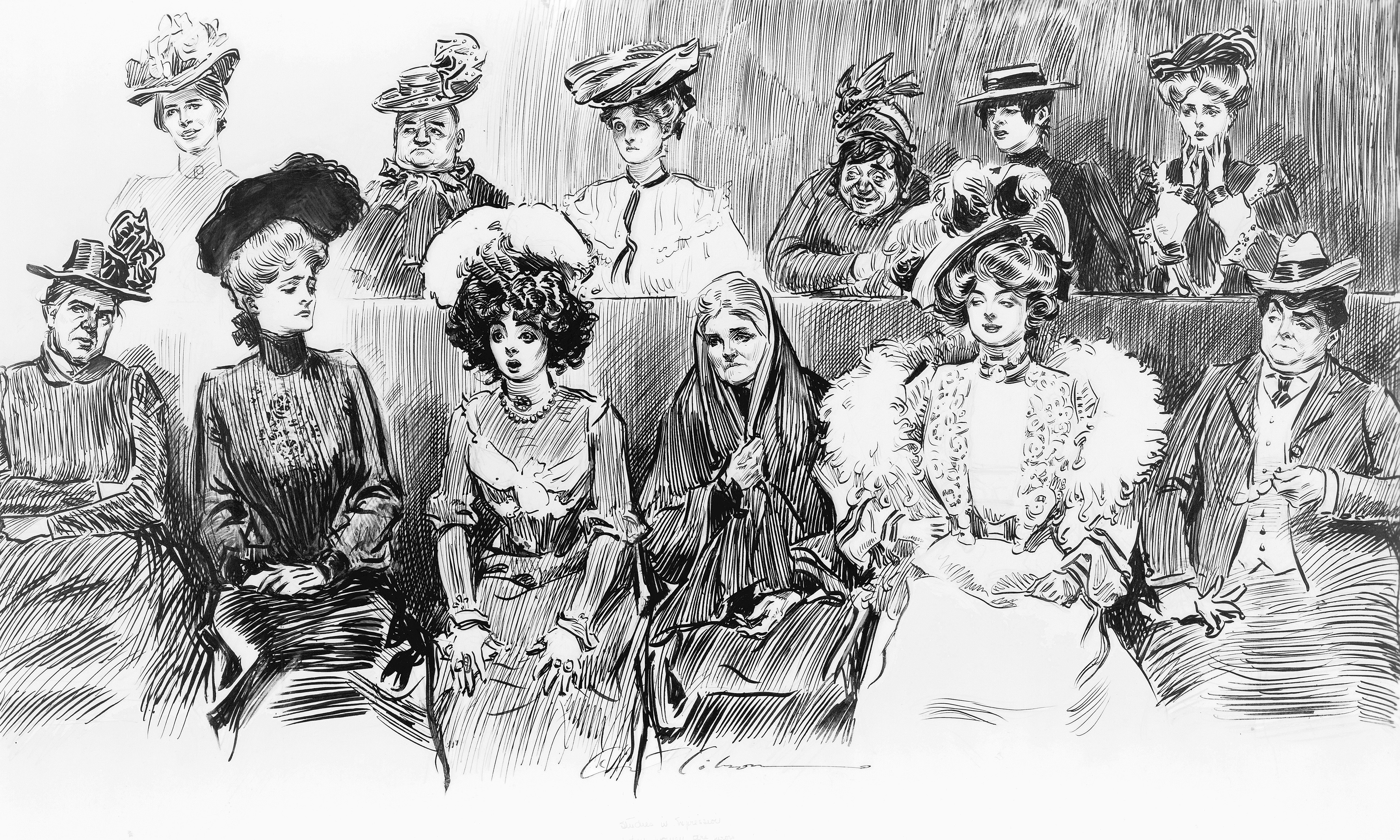 Original drawing for "Studies in expression. When women are jurors" cartoon by Charles Dana Gibson. First published 23 October 1902 in Life on pages 350–351